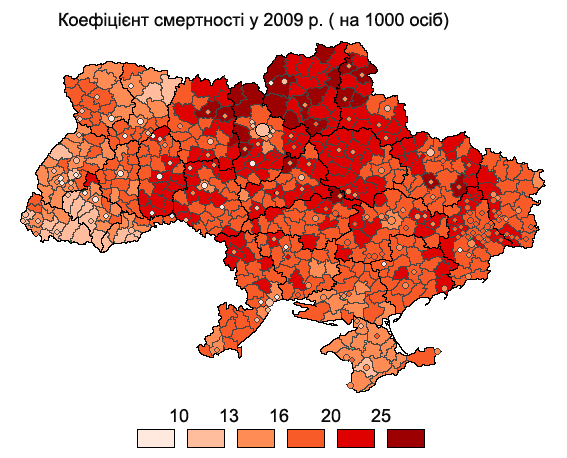 Death rate in raions and big cities of Ukraine in 2009 Data from oblasts' statistics comitees